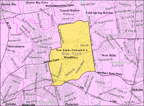 U.S. Census 2000 reference map for Woodbury, New York